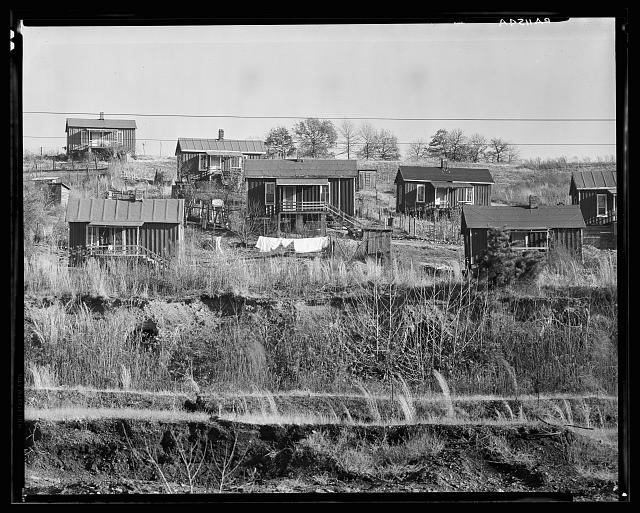 TITLE: Alabama miners' houses near Birmingham, Alabama CALL NUMBER: LC-USF342- 001154-A [P&P] REPRODUCTION NUMBER: LC-USF342-T01-001154-A (b&w film dup. neg.) MEDIUM: 1 negative : nitrate ; 8 x 10 inches or smaller. CREATED/PUBLISHED: 1935 Dec. CREATOR: Evans, Walker, 1903-1975, photographer. NOTES: Title and other information from caption card. LOT 1604 (Location of corresponding print.) Transfer; United States. Office of War Information. Overseas Picture Division. More information about the FSA/OWI Collection is available at TOPICS: Miners' housing--Alabama SUBJECTS: United States--Alabama--Jefferson County--Birmingham. FORMAT: Nitrate negatives. PART OF: Farm Security Administration - Office of War Information Photograph Collection REPOSITORY: Library of Congress Prints and Photographs Division Washington, DC 20540 DIGITAL ID: (digital file from T01 duplicate negative) fsa 8c52075 OTHER NUMBER: E 2588 CONTROL #: fsa1998017989/PP